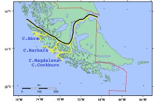 The two versions of the course of the Strait of Magellan during the Beagle conflict: the black course is the Chilean sight and the yellow course (delta) is the Argentine sight.